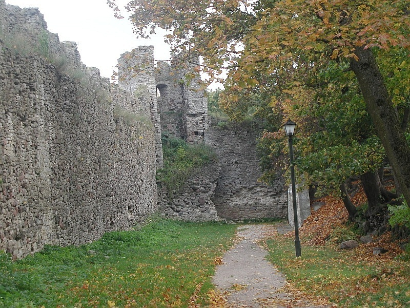 The ruin of the castle of the bishop.